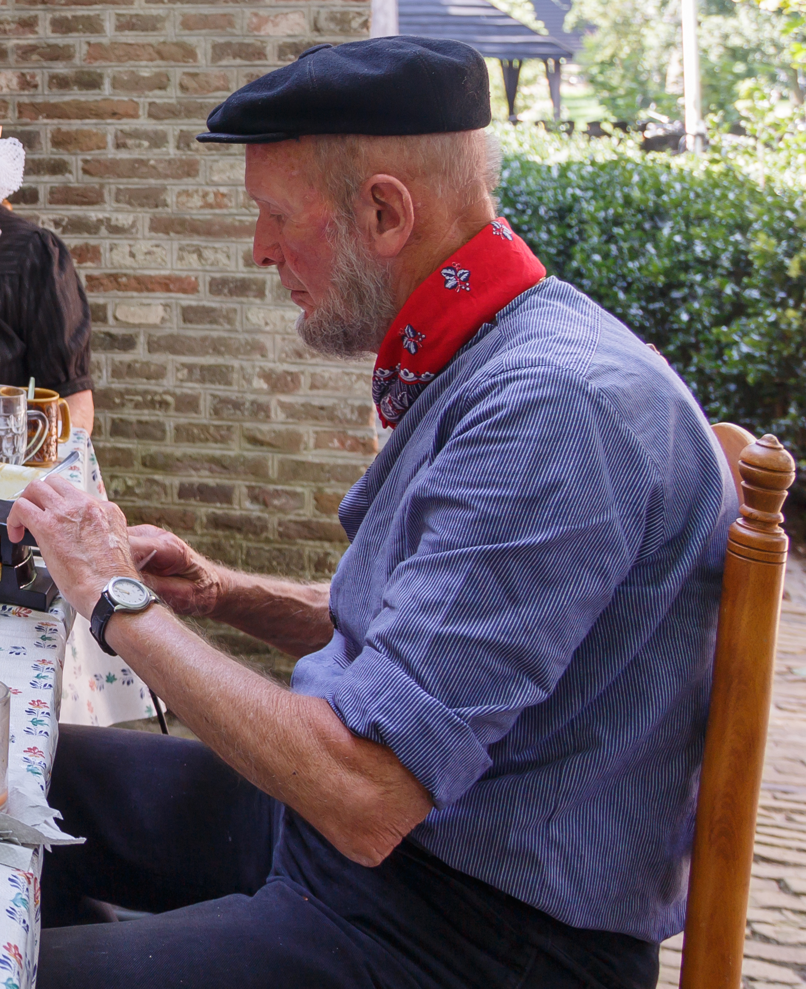 Giethoorn, The Netherlands: People in traditional clothing of the Netherlands